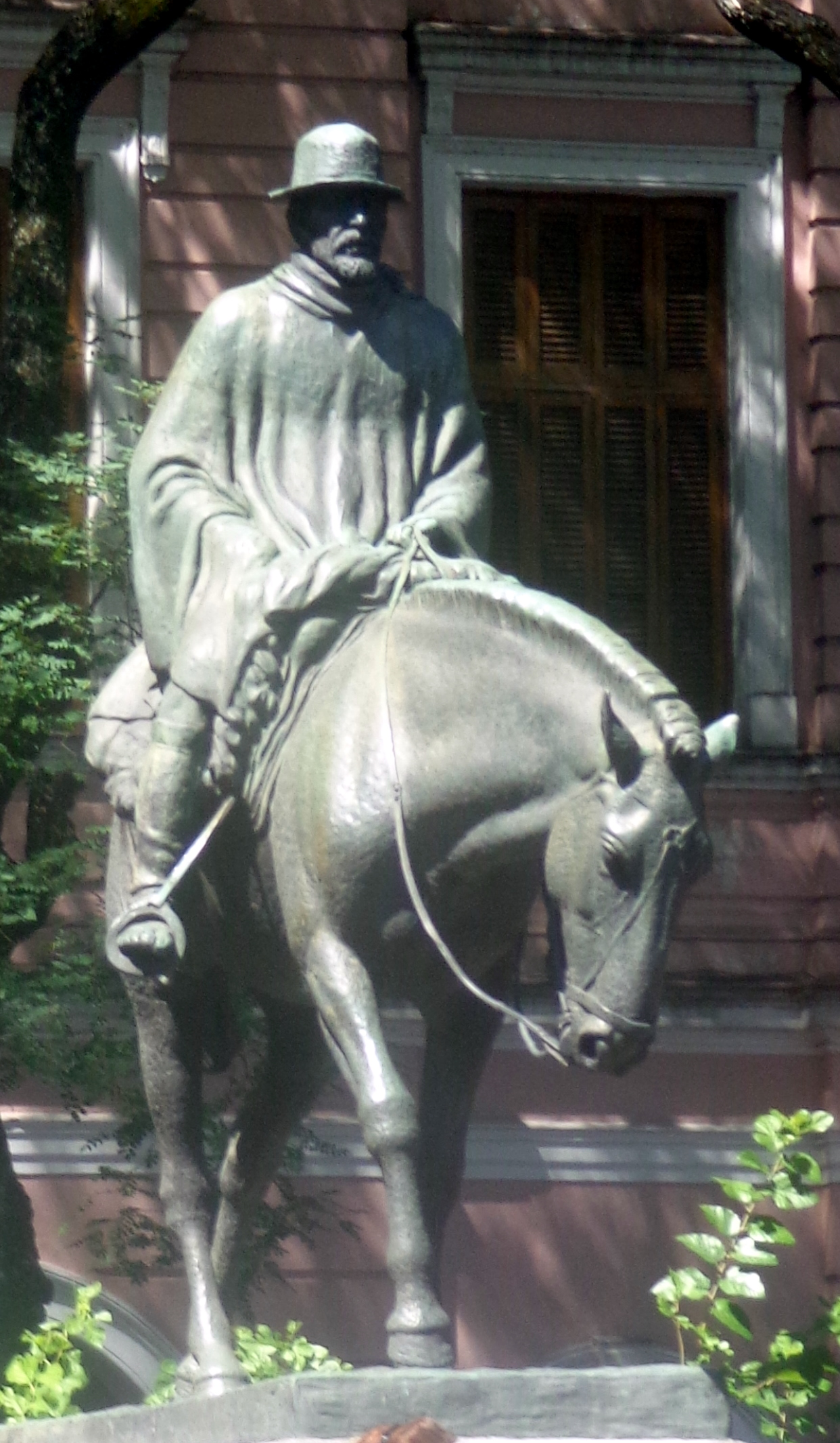 Statue "El Resero" of Emilio Jacinto Sarniguet (1932), in Mataderos, Buenos Aires city. Intersection of Lisandro de la Torre avenue and "de los Corrales" avenue.